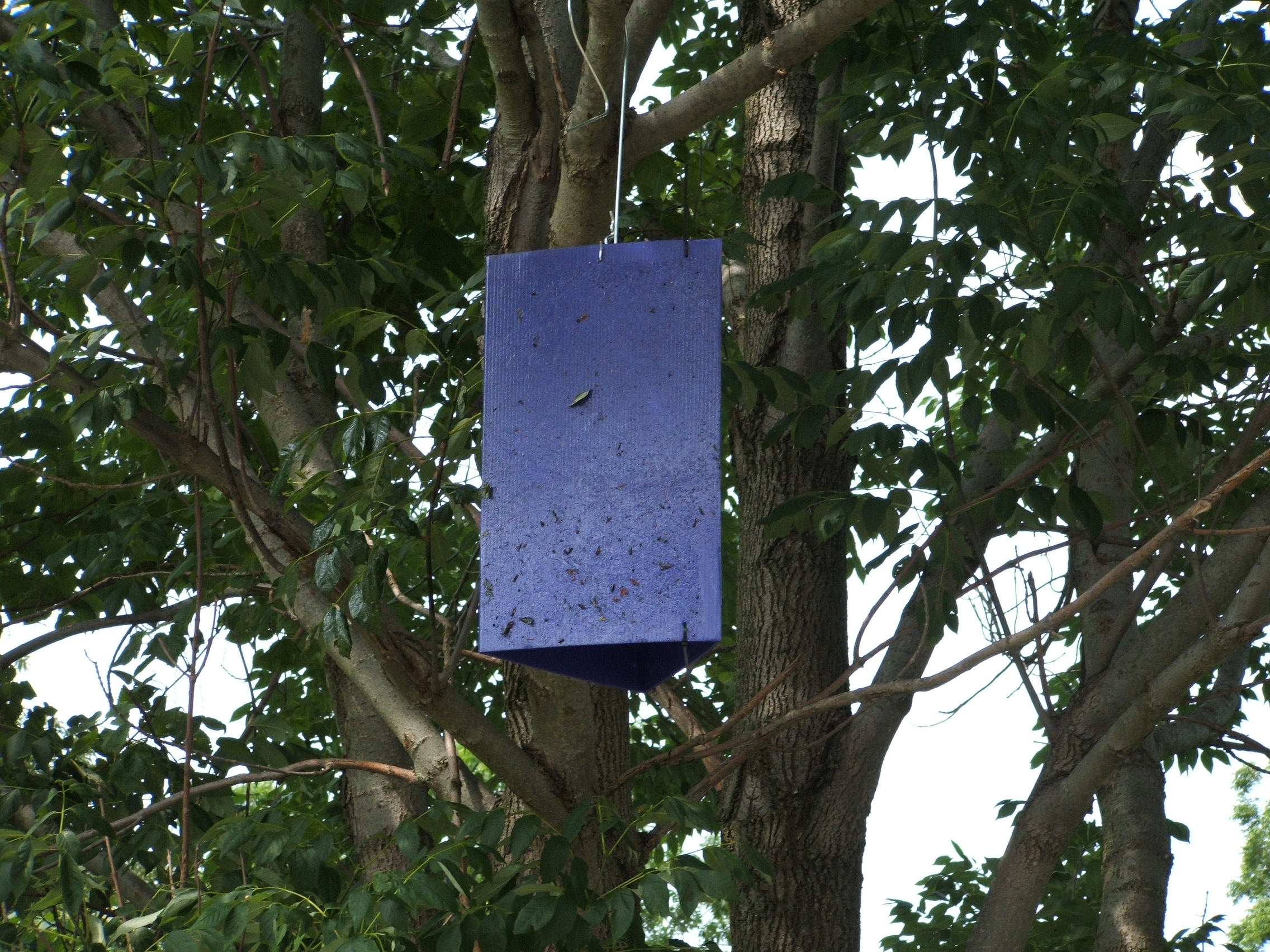 A purple trap used for a U.S.-government-sponsored nationwide emerald ash borer tracking program. This one was found on Meier Road in Vanderburgh County, Indiana, near Darmstadt.